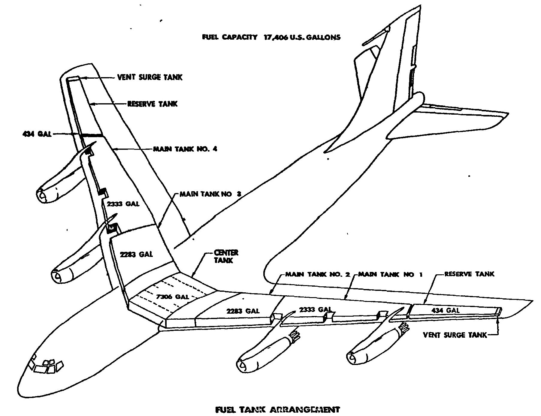 From CAB Pan Am 214 accident report.